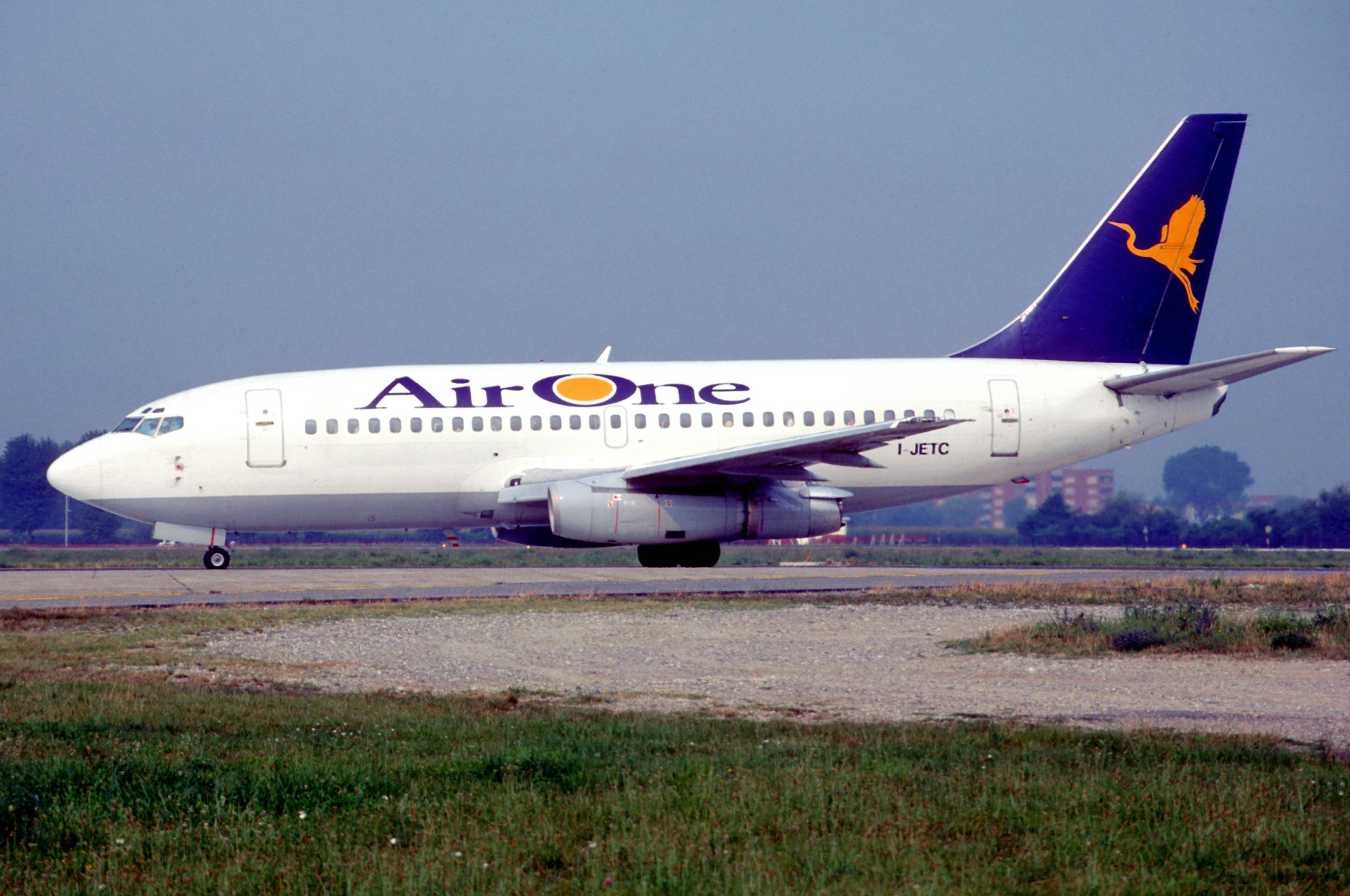 Air One Boeing 737-230; I-JETC, July 1998